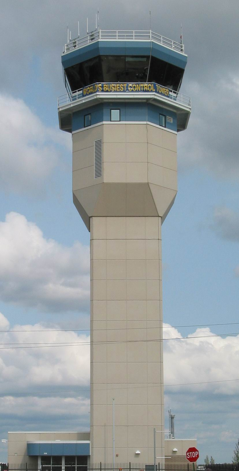 Photo of the new control tower at Wittman Regional Airport in Oshkosh, Wisconsin